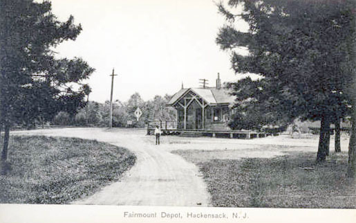 The former Fairmount Avenue Station in service. Hackensack, New Jersey.